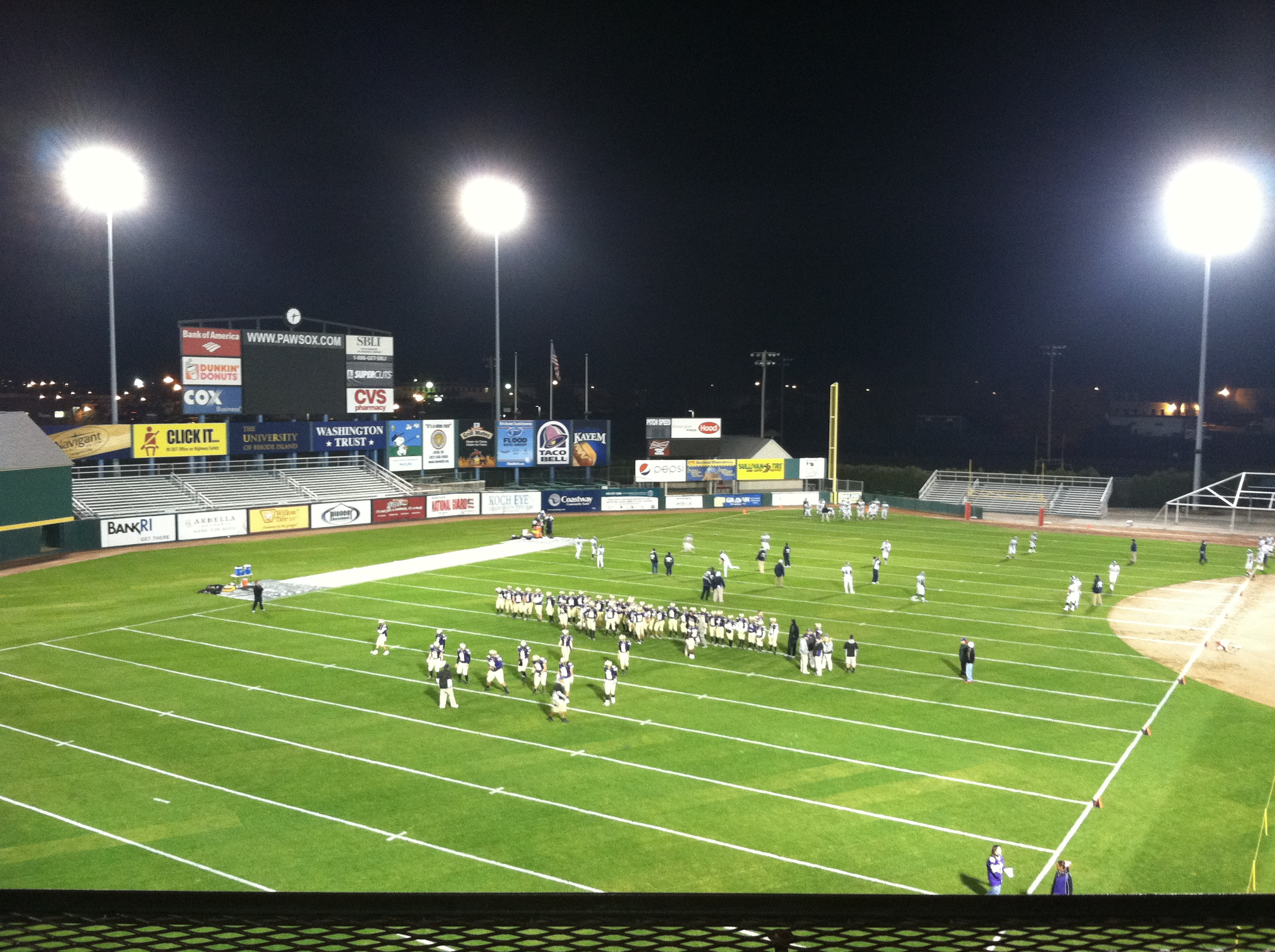 Football field inside McCoy Stadium during pregame warm-up. Saint Raphael Academy vs. Moses Brown School, November 21, 2012.